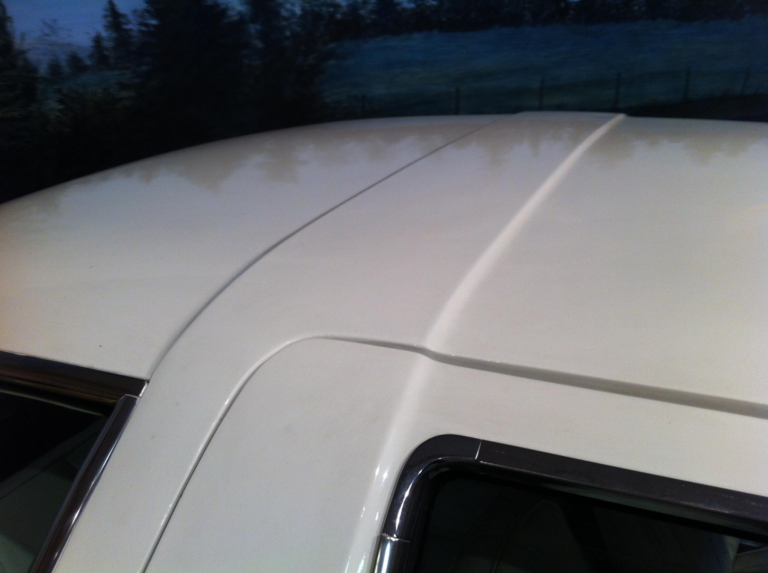 1975 AMC Pacer X coupe, by American Motors Corporation. Safety "roll bar" type design on the roof. One of the cars in the permanent collection at the Antique Automobile Club of America Museum, located in Hershey, Pennsylvania. The AACA is premier car club in the world focused on antique cars, trucks, motorcyles, and their history.